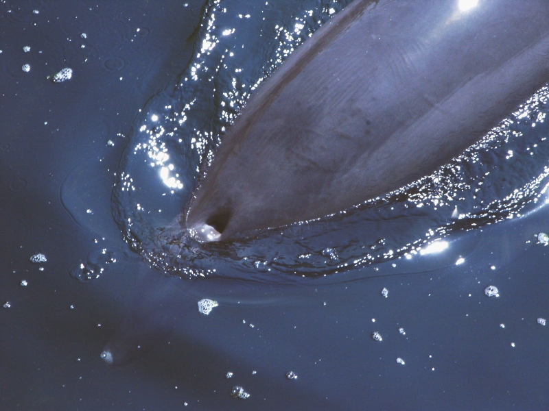 The blowhole of a bottlenose dolphin. Photo taken by me, 2005